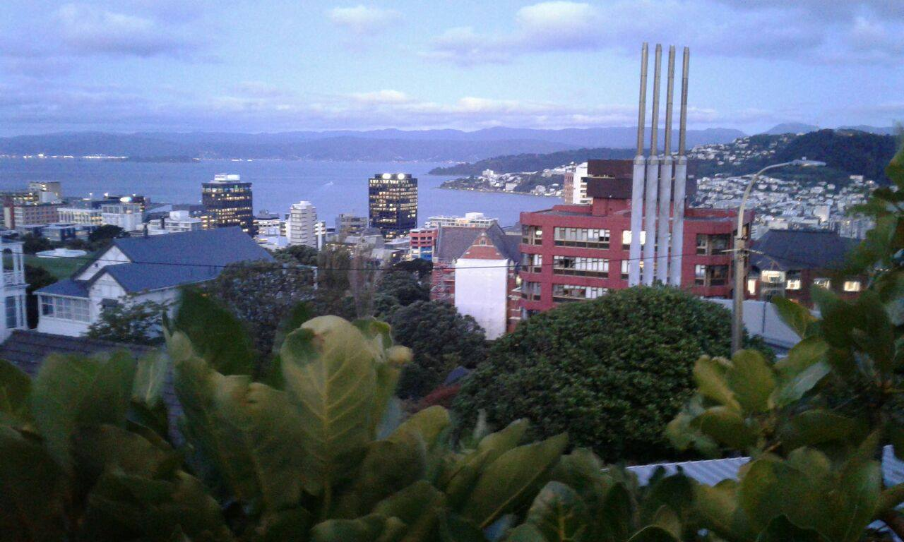 This picture shows the top of the red-coloured von Zedlitz building on Victoria University of Wellington's Kelburn campus. Taken at dusk and partly showing Wellington's CBD and harbour behind.